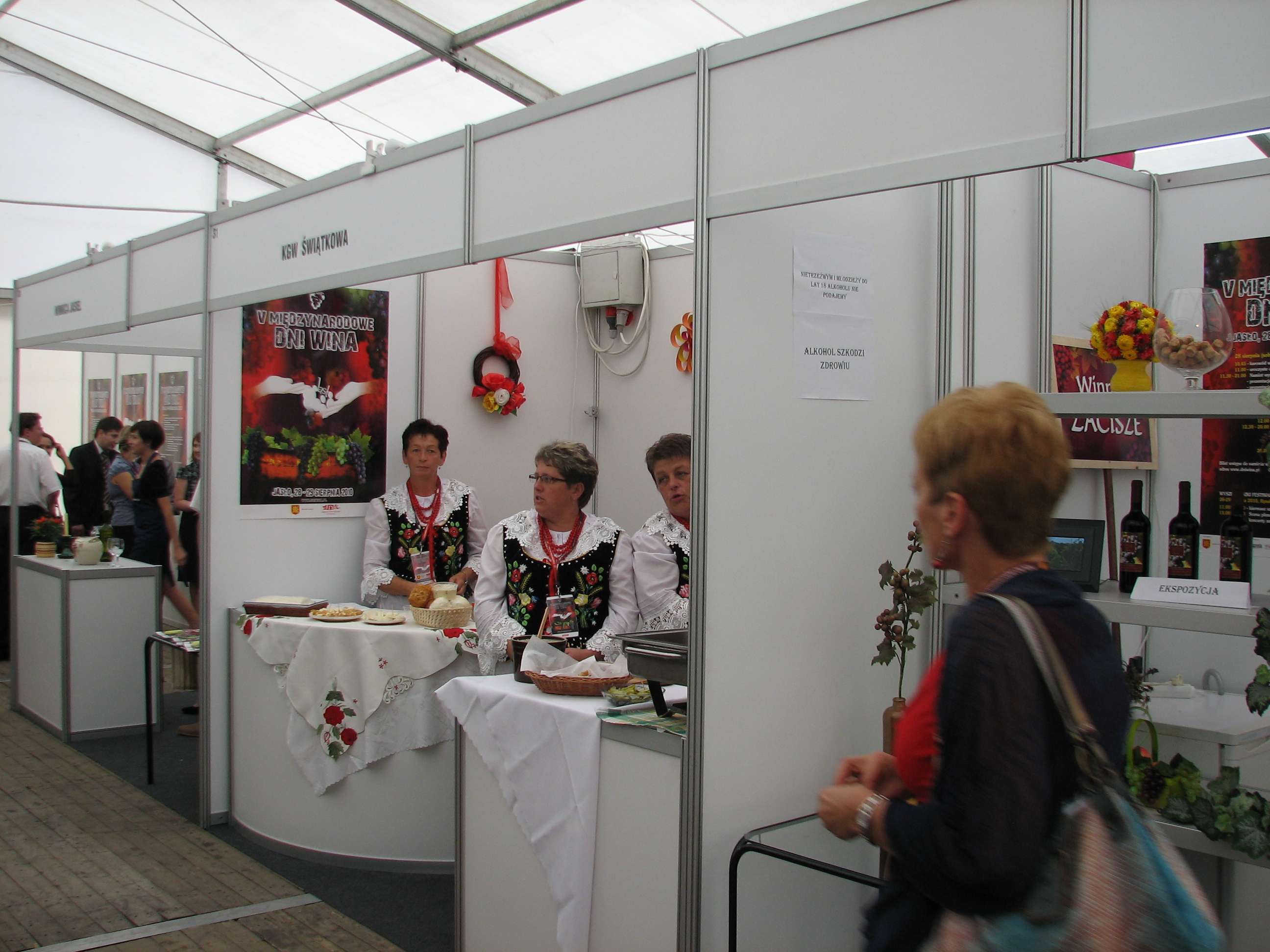 V Days of Wine in Jasło